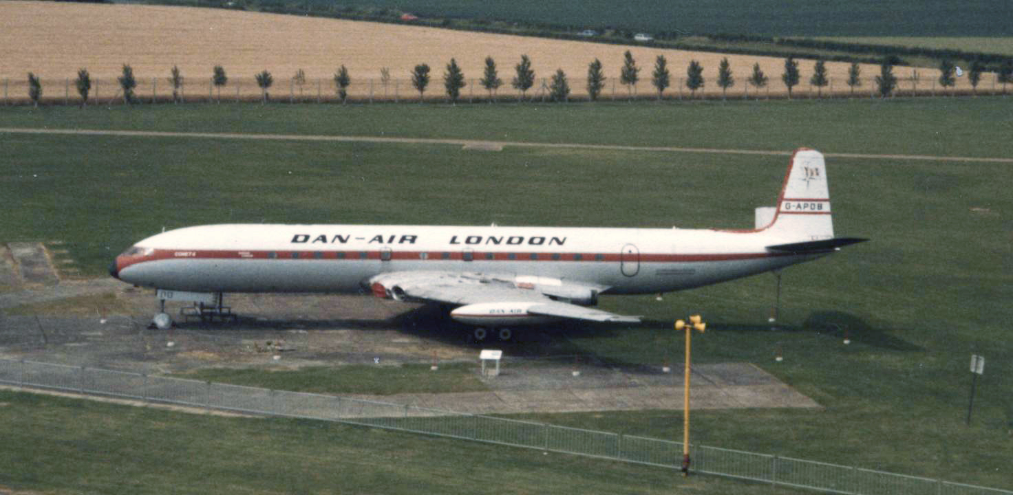 DH 106 Comet 4 G-APDB of Dan-Air preserved at Duxford, England